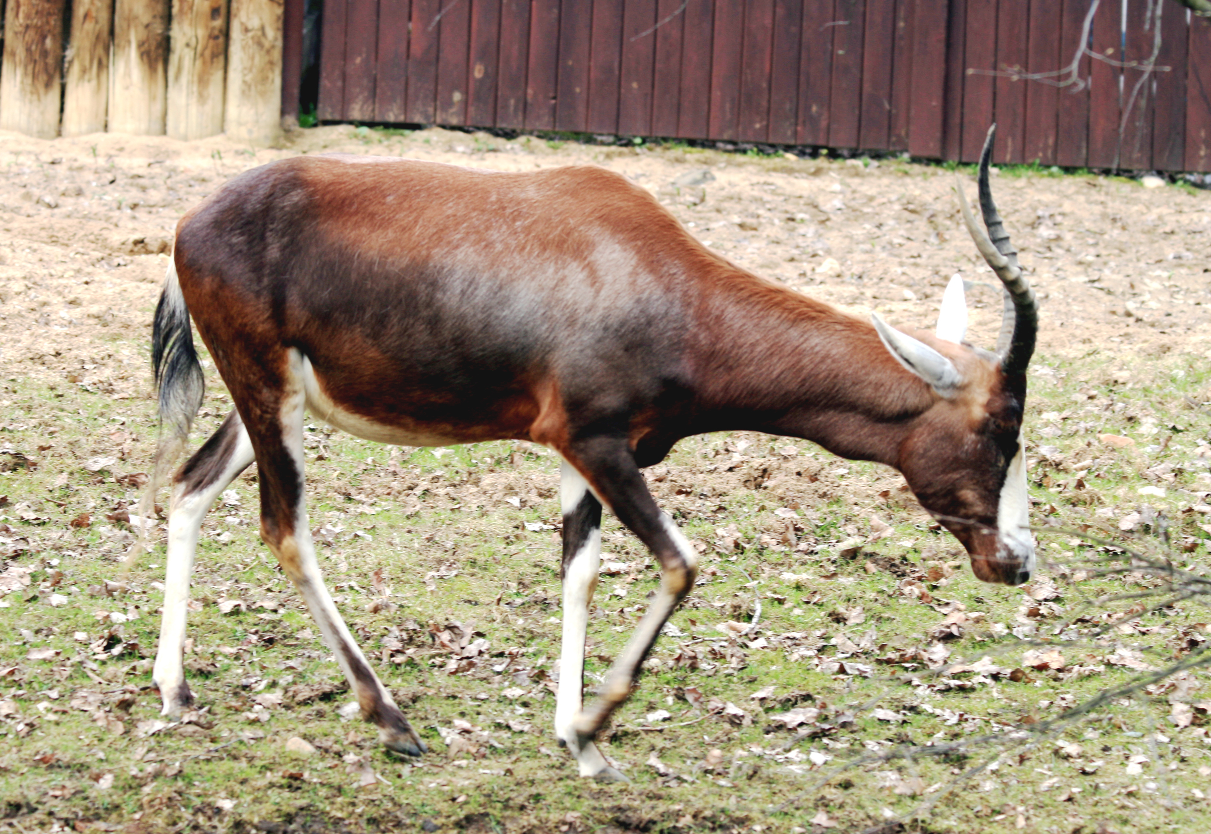 Blesbuck, Damaliscus pygargus phillipsi in ZOO Dvůr Králové, Czech Republic